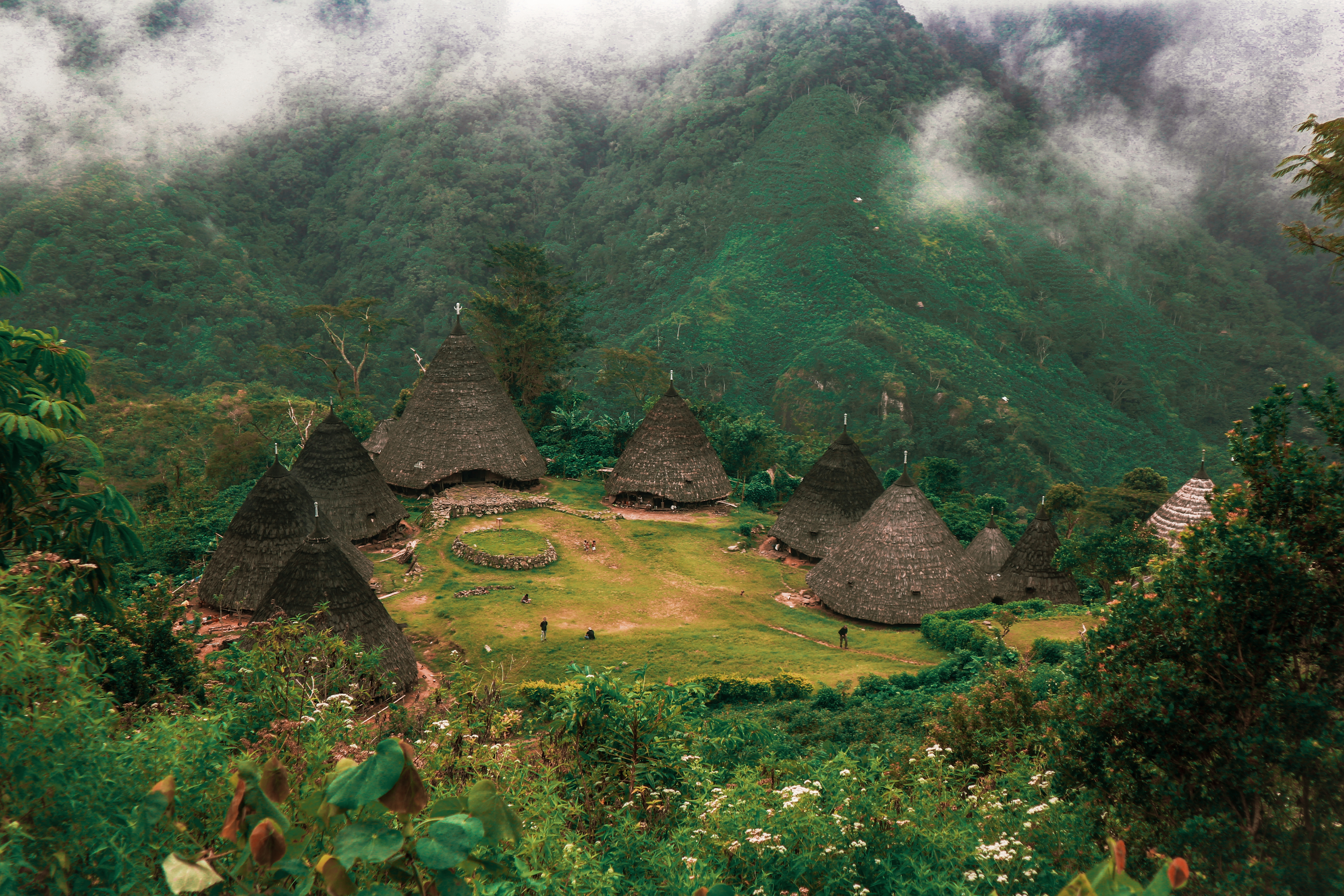 Wae Rebo’s main characteristics are their unique houses, which they call Mbaru Niang